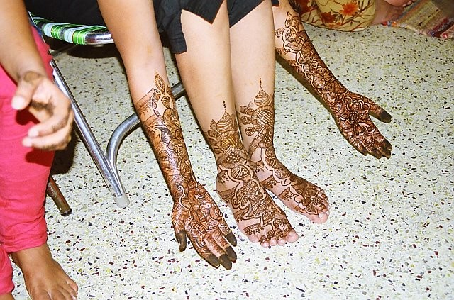 Mehendi decorations on feet